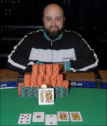 Brock Parker after winning Event 19 of the 2009 World Series of Poker